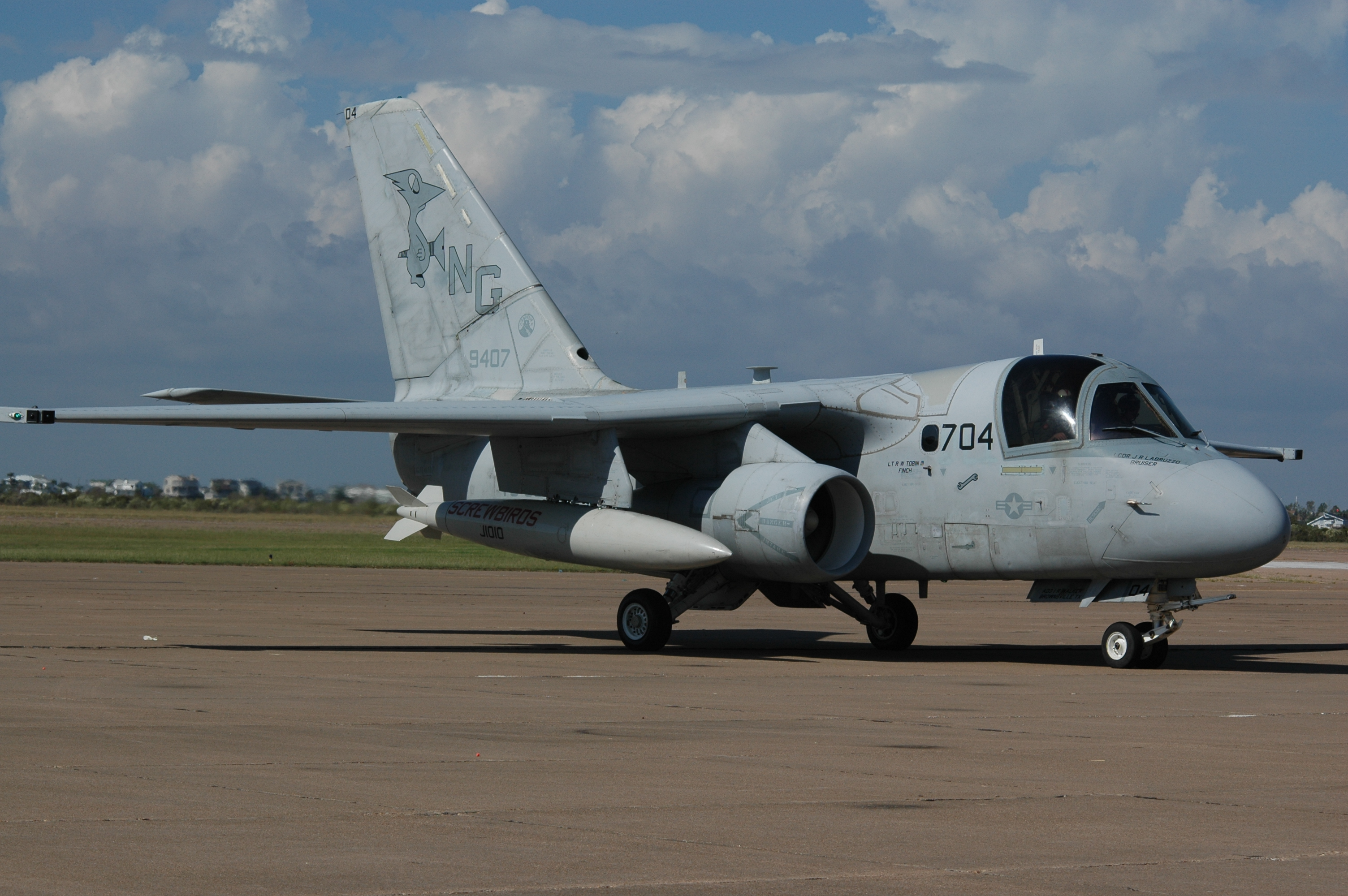 Lockheed S-3B Viking from the VS-33 Screwbirds, right after landing in Galveston, TX for the Lone Star Flight Museum Airshow